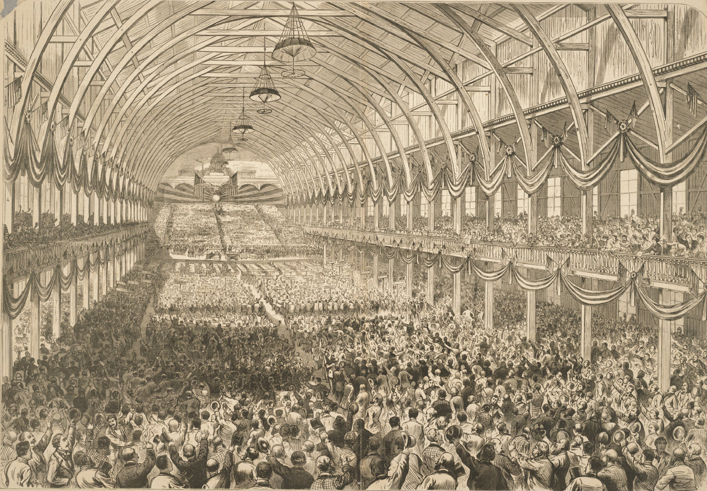 Collection: Cornell University Collection of Political Americana, Cornell University Library Repository: Susan H. Douglas Political Americana Collection, #2214 Rare & Manuscript Collections, Cornell University Library, Cornell University Title: Ohio - The Republican National Convention at Cincinnati Political Party: Republican Election Year: 1876 Date Made: 1876 Measurement: Sheet (unfolded): 16 x 22 in.; 40.64 x 55.88 cm Classification: Publications Persistent URI: There are no known U.S. copyright restrictions on this image. The digital file is owned by the Cornell University Library which is making it freely available with the request that, when possible, the Library be credited as its source.